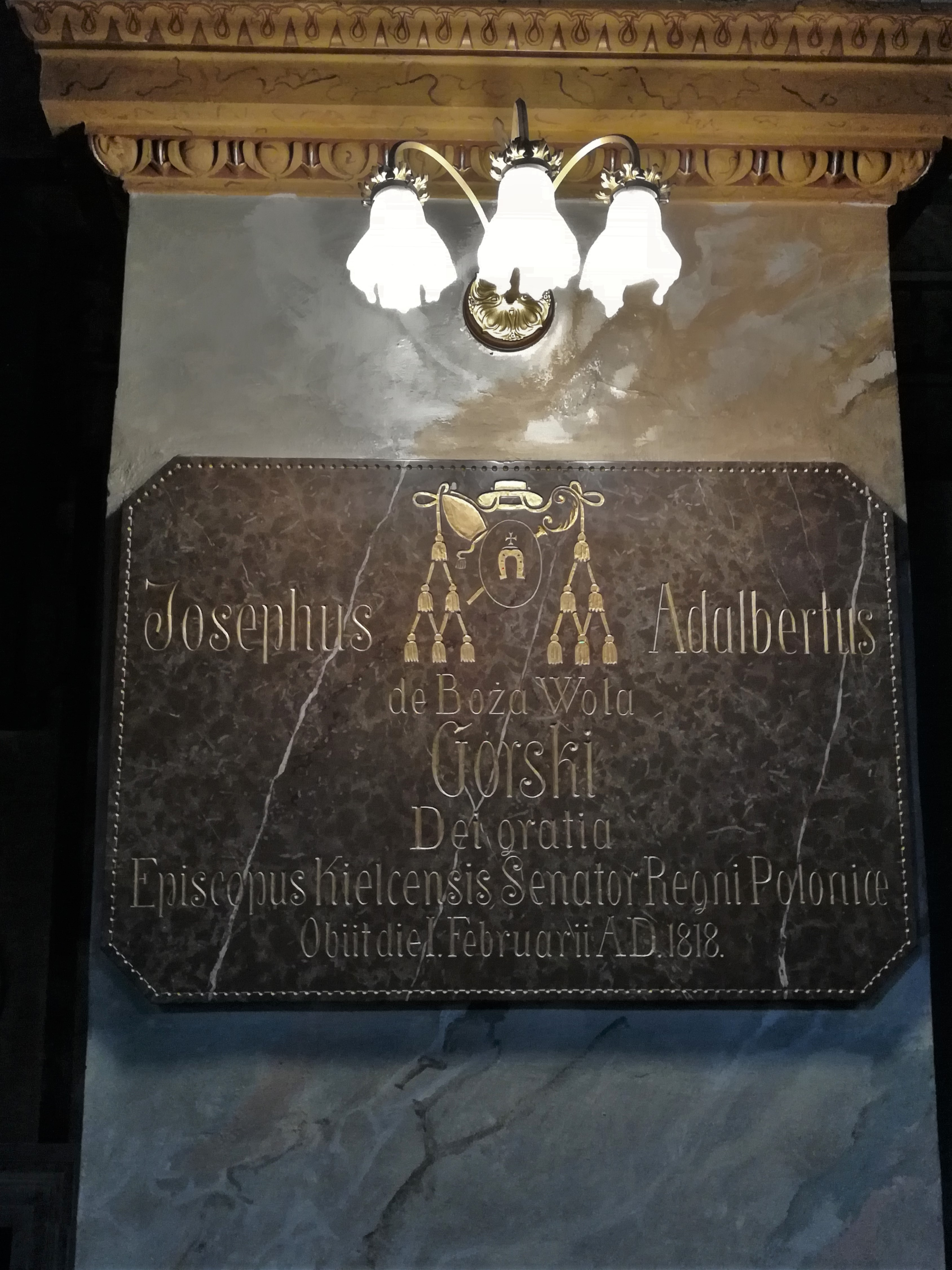 Cathedral Basilica of the Assumption of the Blessed Virgin Mary in Kielce - epitaph of Bishop Wojciech Jan Józef Górski from 1818